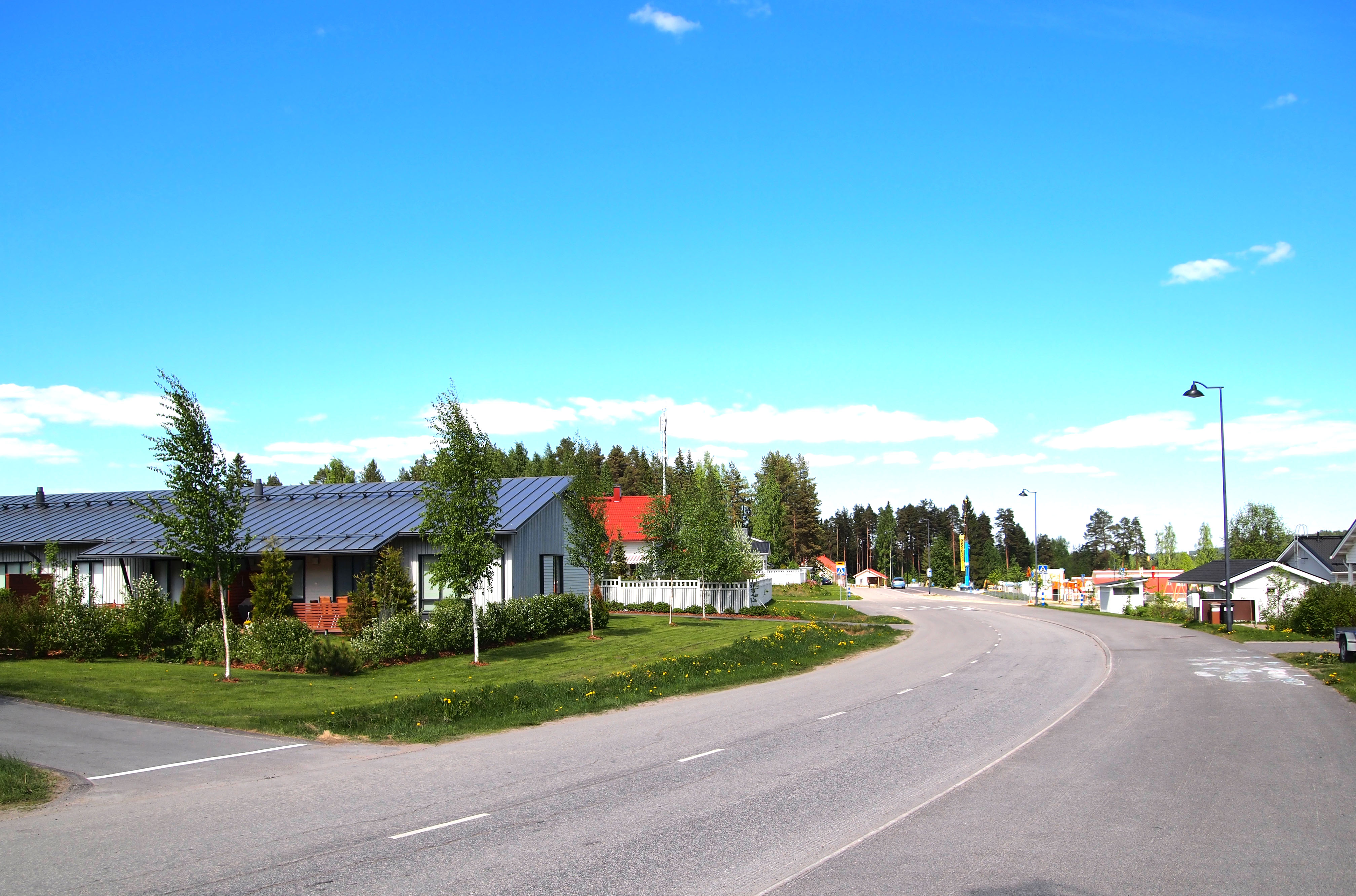 Street Haukanpesäntie in Jyväskylä.